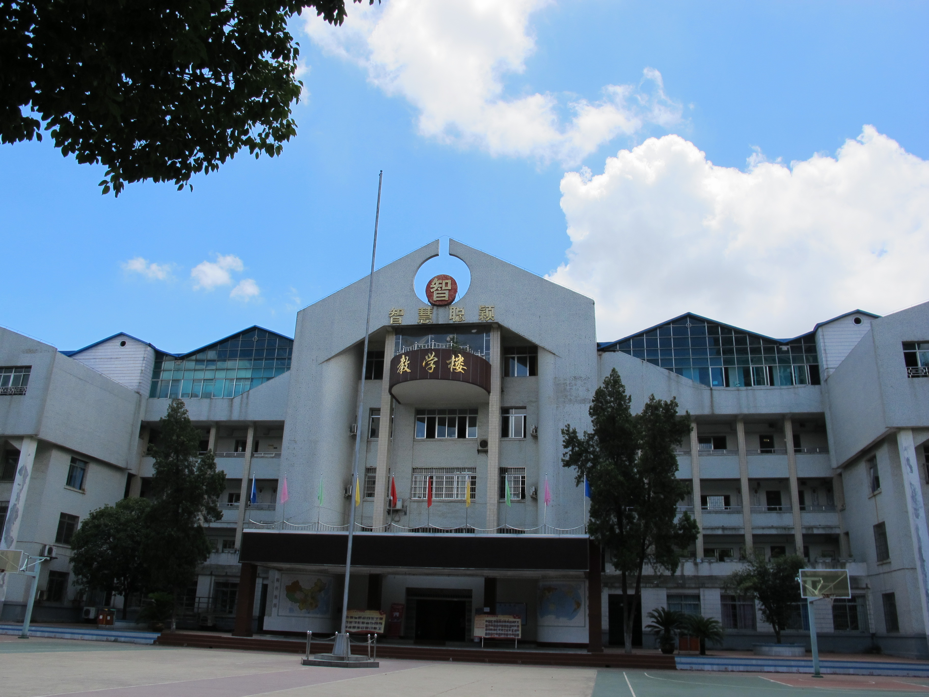 The main teaching building of the High School Affiliated to Guizhou Normal University